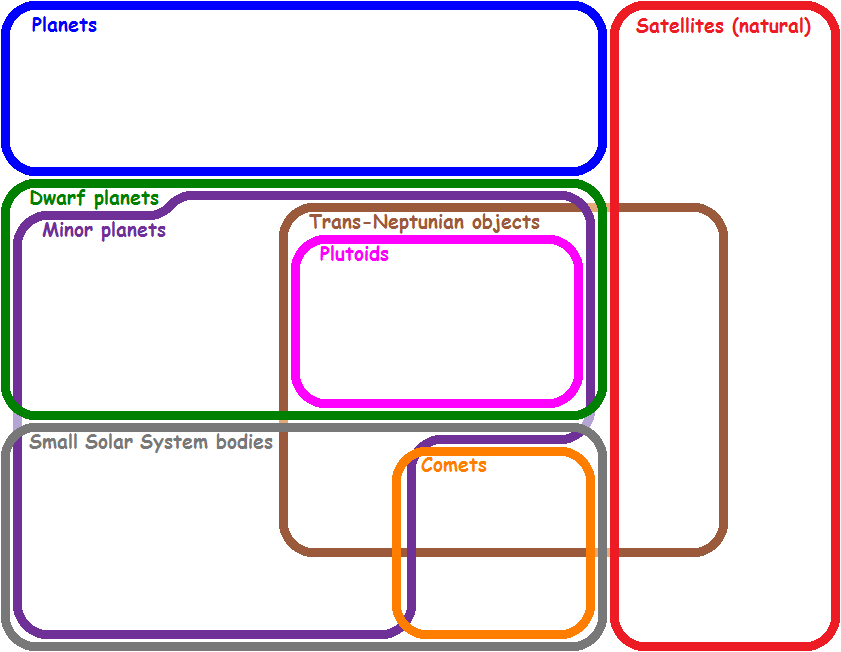 Euler diagram of the main types of Solar System bodies, other than stars